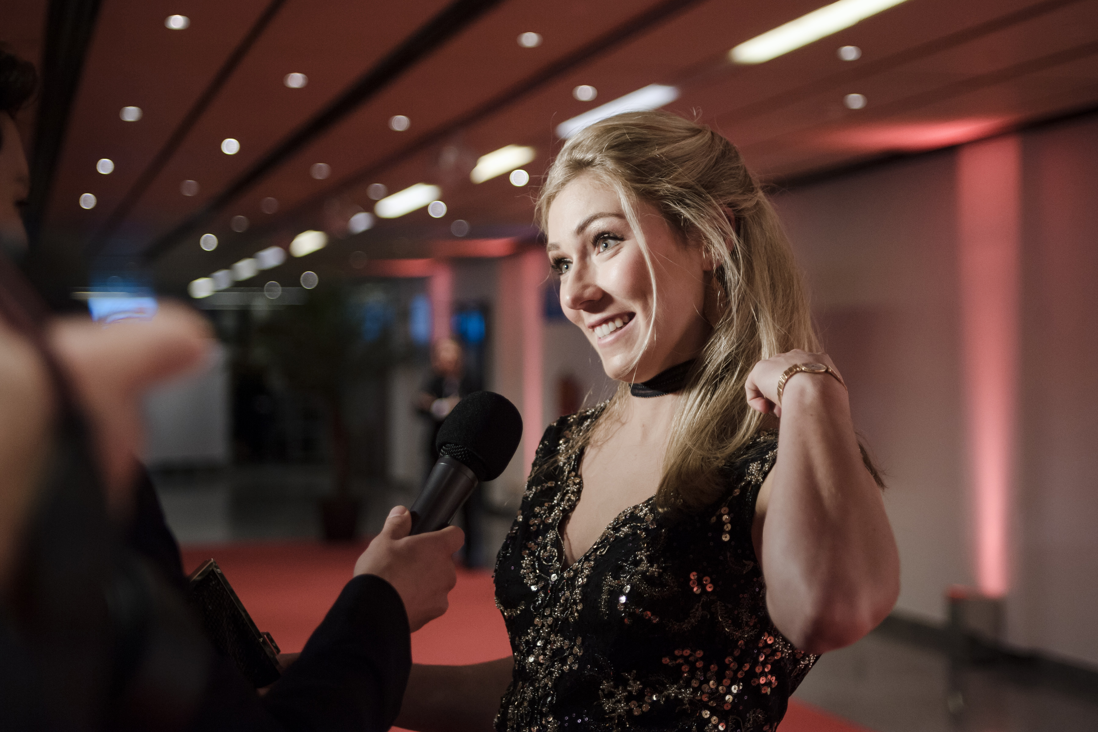 Mikaela Shiffrin, guest at the Night of Sports 2016, the annual award show for the Austrian Sportspersonalities of the Year (Austria Center Vienna, Vienna, Austria).